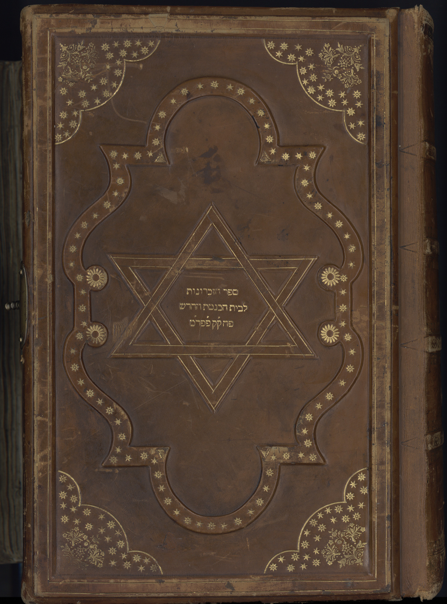 Memory Book of the Jewish Community in Frankfurt Am Main